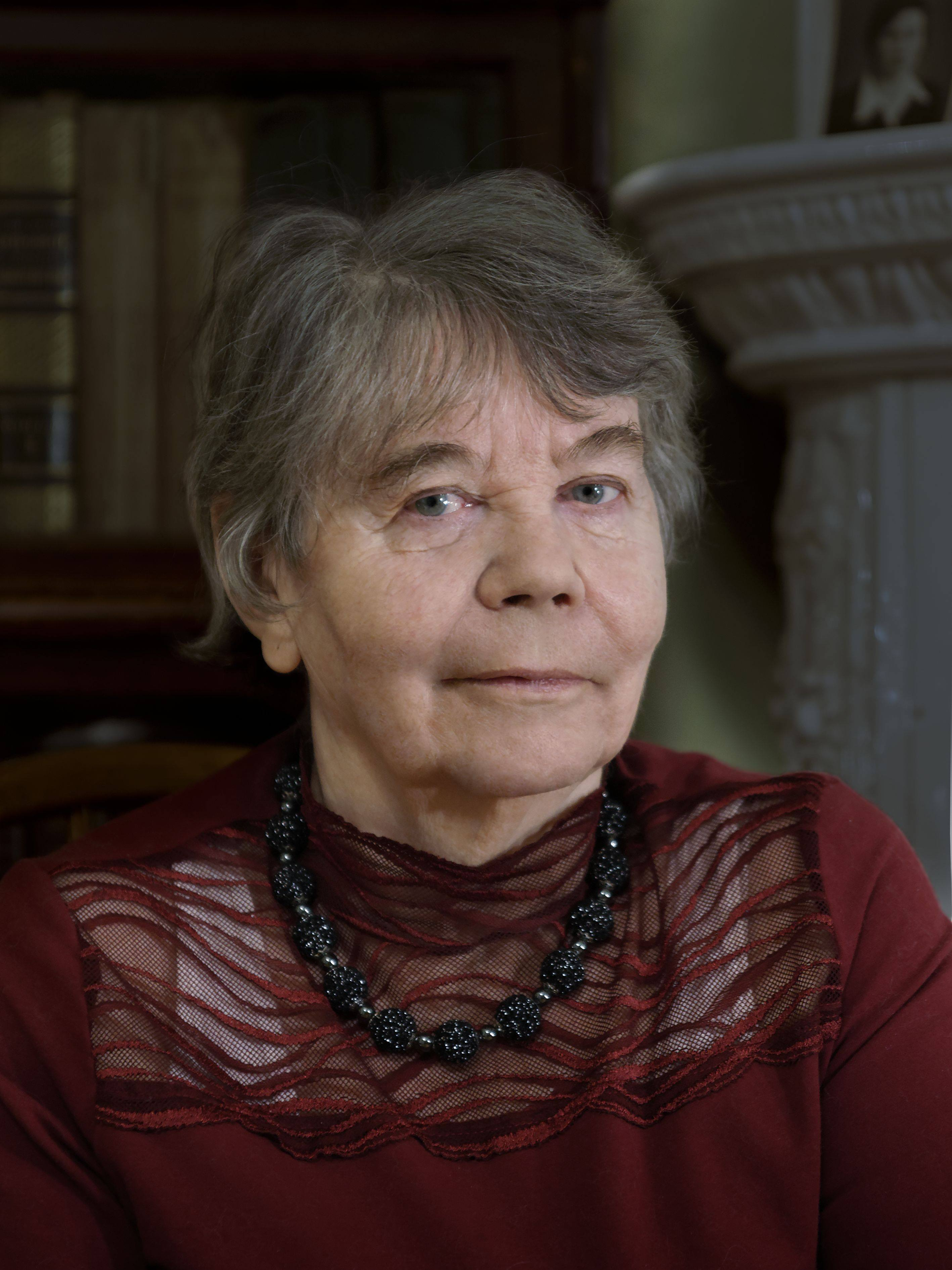 Portrait of russische writer Nina Katerli. Photo author Andrey Opritov. 11.03.2011